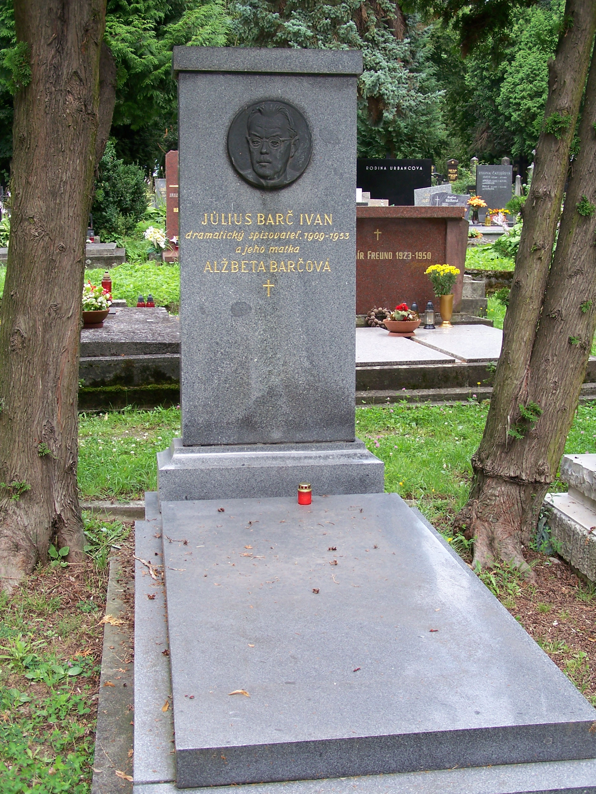 Grave of Július Barč Ivan at the National Cemetery in Martin, Slovakia